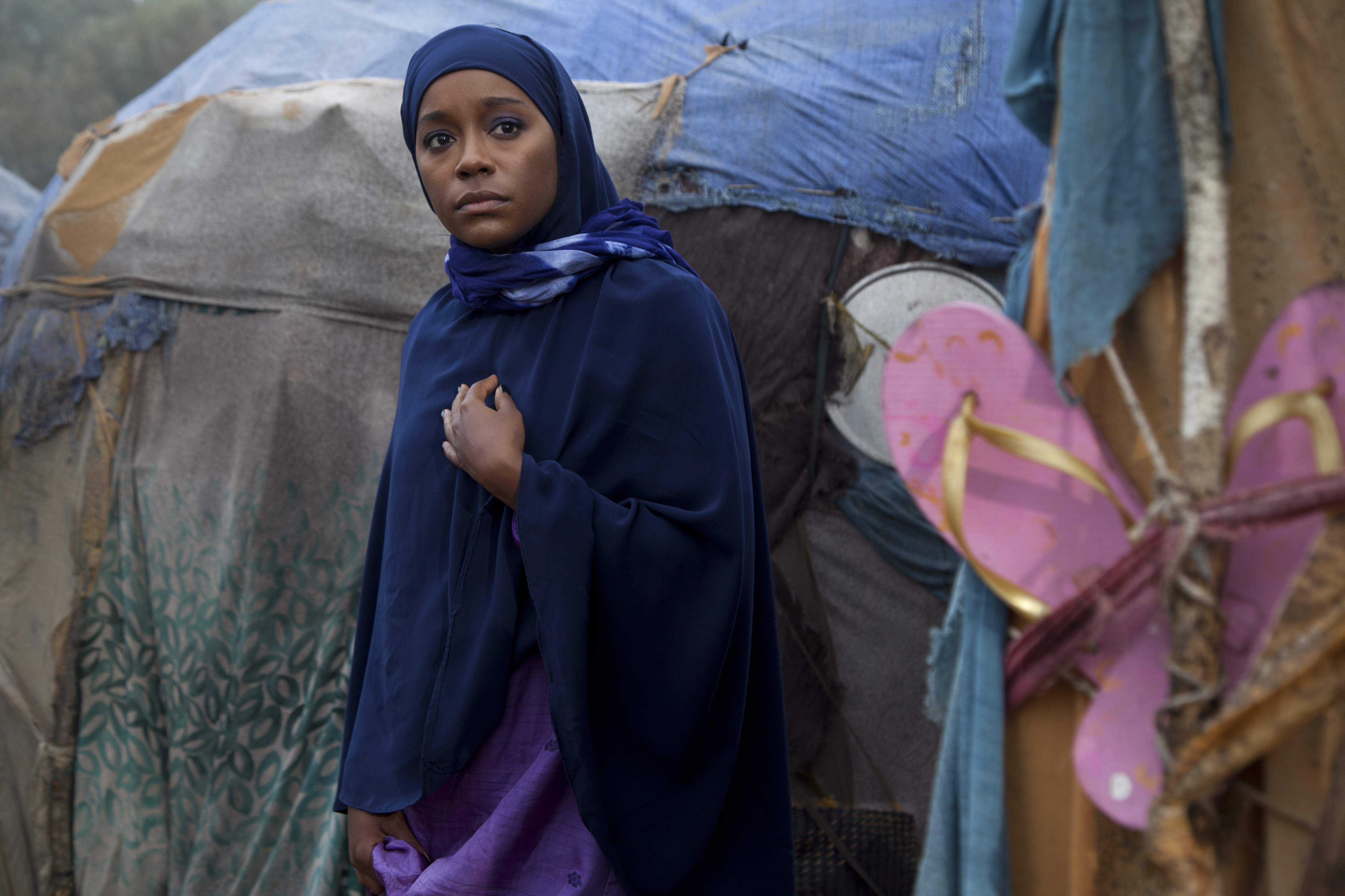 Production Still Copyright Seamus Murphy for Pembridge Film Productions Limited All Rights Reserved